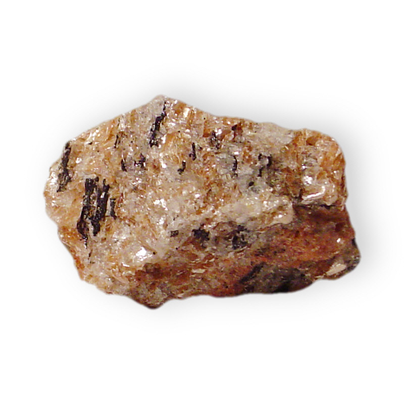 These mineral images are free to use how you wish.